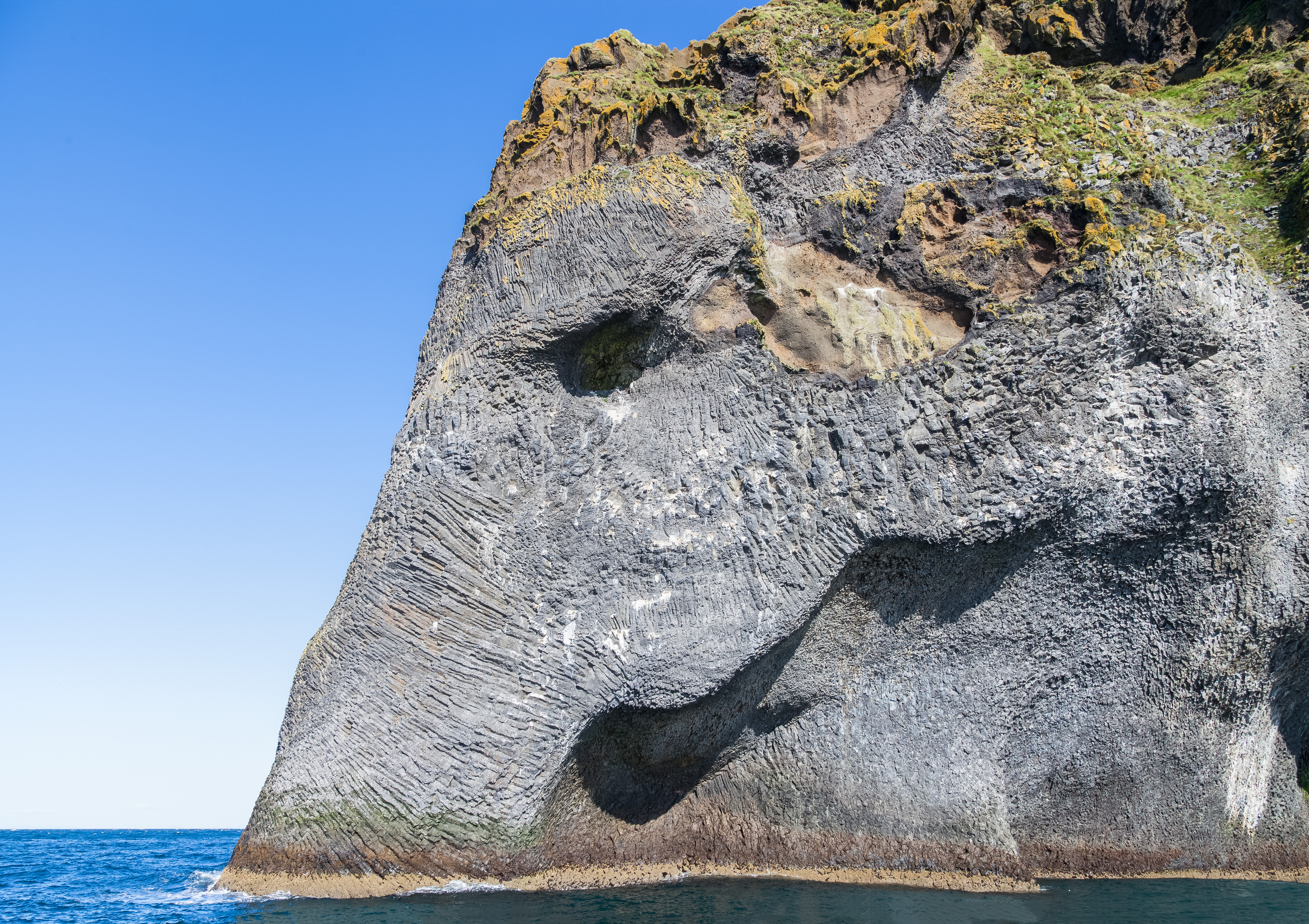 Elephant Rock in the cliffs of the island Heimaey, Westman Islands, Suðurland, Iceland.